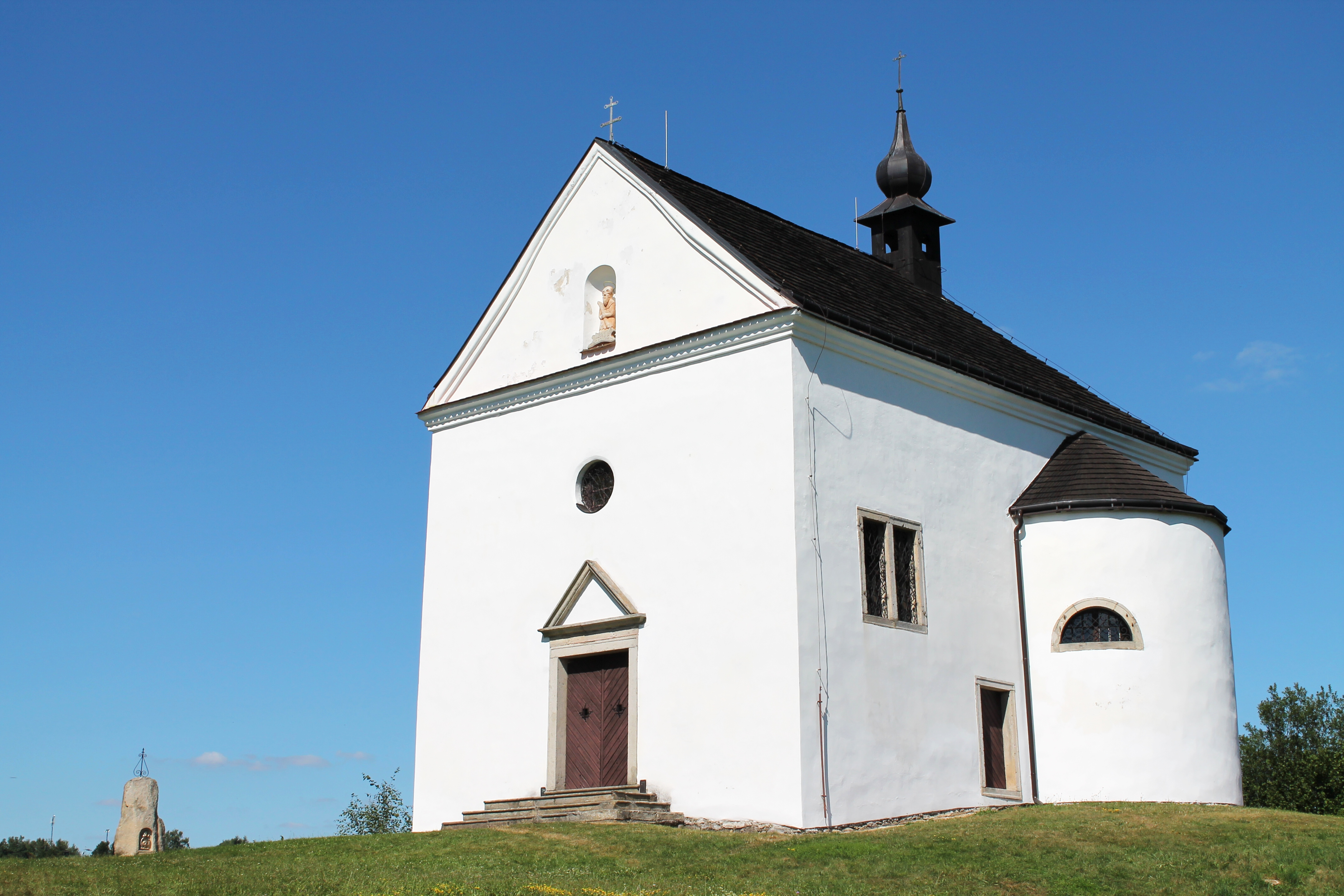 Church of Saint Joachim, Dobrá Voda, Mrákotín, Jihlava District, Czech Republic